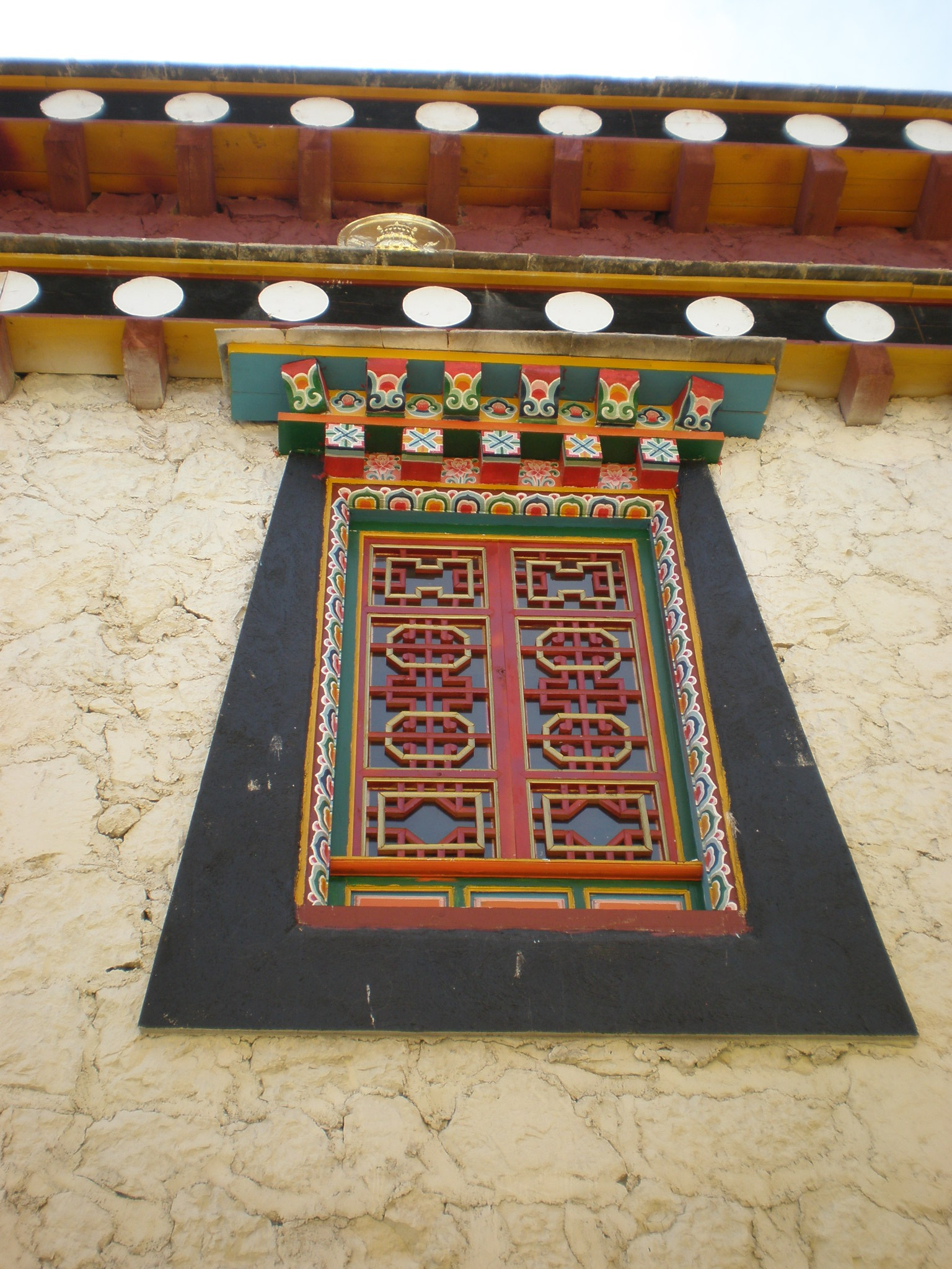 A window of a prayer hall adjacent to the main prayer hall of Songzanlin Monastery near Shangri-La, Yunnan, PRC.